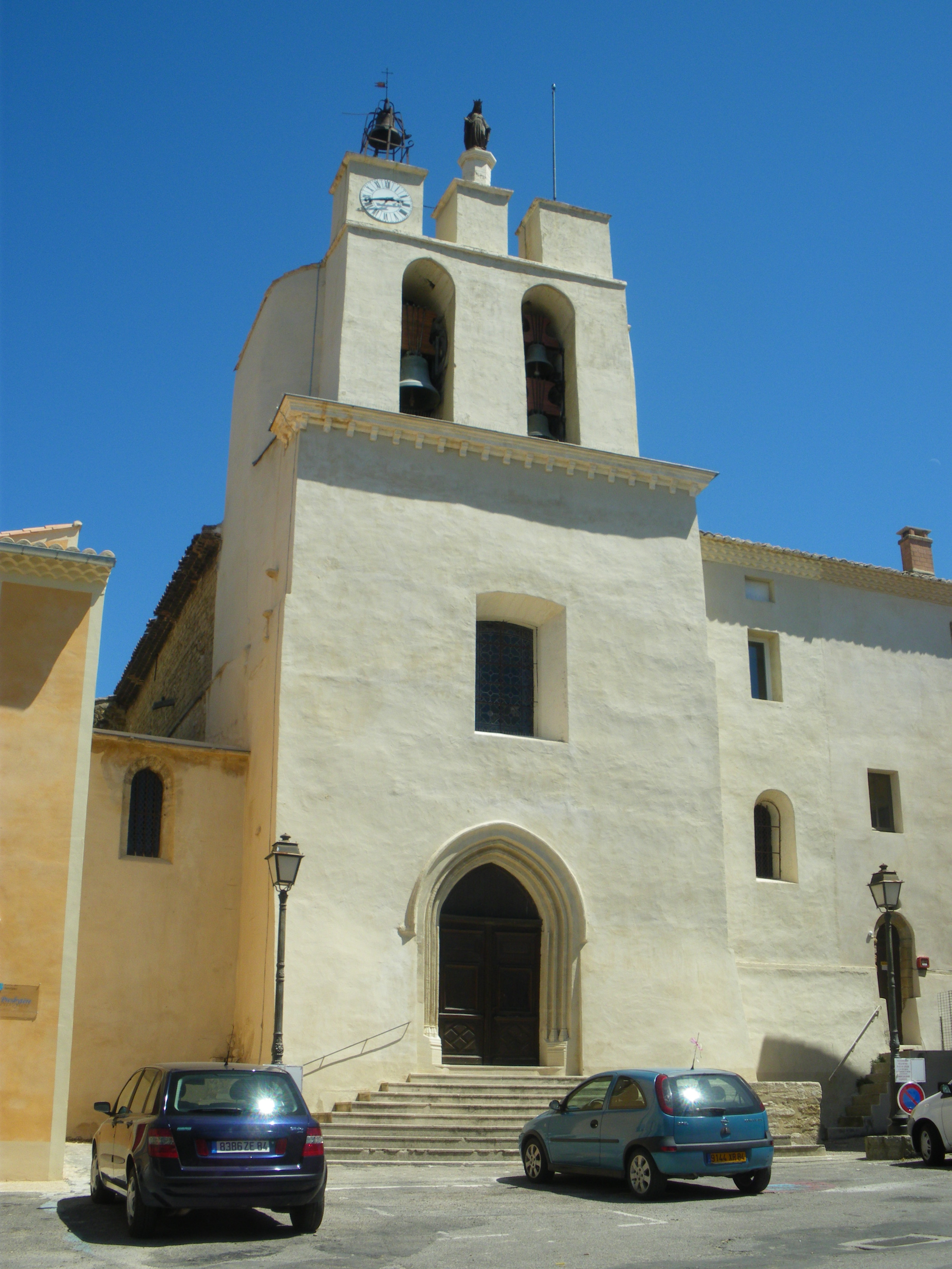 church of Sarrians, Vaucluse, France